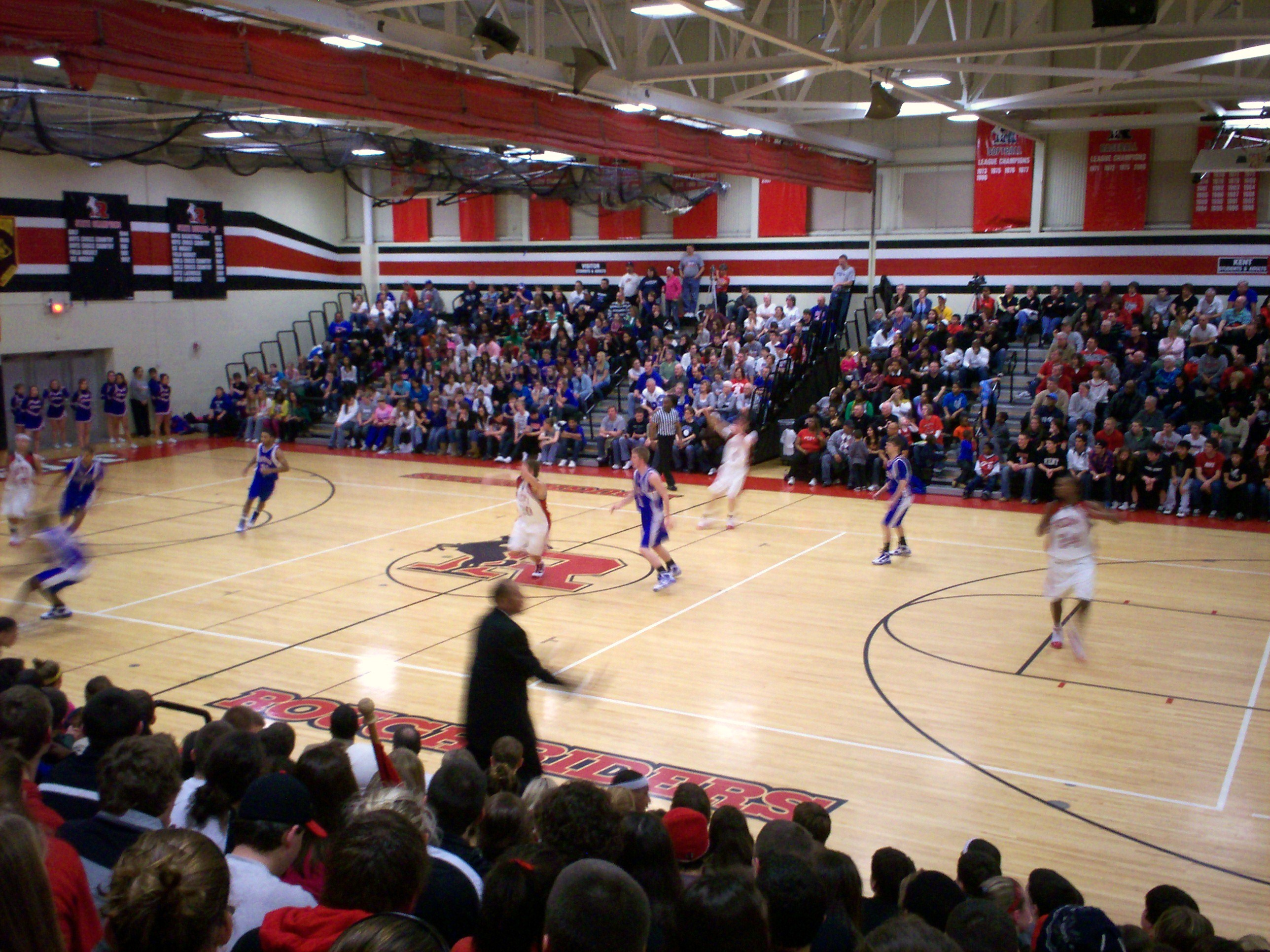 Boys basketball game between the Rough Riders of Theodore Roosevelt High School and the Ravens of Ravenna High School at the Roosevelt gymnasium in Kent, Ohio.